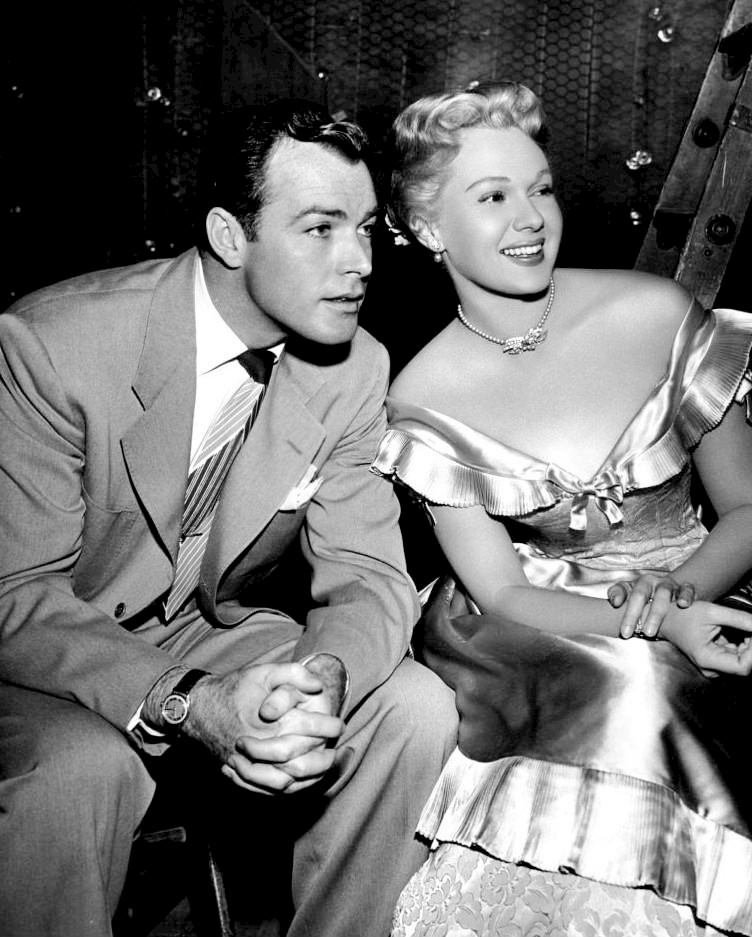 Publicity photo of actor Glenn Langan and actress Adele Jergens on the set. The couple married later on.